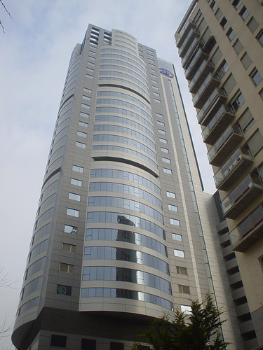 Hotel Melia in Valencia, Spain, formerly known as Hilton Tower